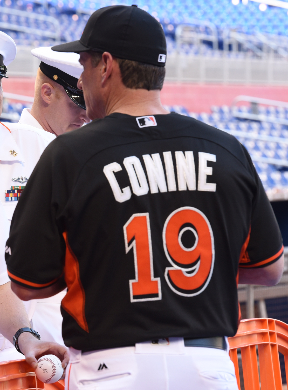 160505-N-YC845-006MIAMI (May 5, 2016) Sailors attached to the Virginia-class attack submarine USS California (SSN-781) talk with former Miami Marlins outfielder Jeff Conine before a Major League Baseball game between the Marlins and the Arizona Diamondbacks as part of Fleet Week Port Everglades. Fleet Week Port Everglades provides an opportunity for the citizens of South Florida to witness first-hand the latest capabilities of today's maritime services and gain a better understanding of how the sea services support the maritime strategy and national defense of the United States. The Navy, Marine Corps, and Coast Guard are warfighters first who train to be ready to operate forward to preserve peace, protect commerce, and deter aggression through forward presence. (U.S. Navy photo by Mass Communication Specialist 1st Class Julie Matyascik/Released)